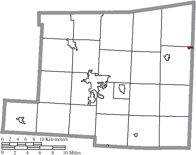 Map of the municipal and township boundaries of Knox County, Ohio, United States, as of the 2000 census, with the location of the village of Gann highlighted. Township borders are shown only in unincorporated areas in order to differentiate incorporated and unincorporated areas more clearly.